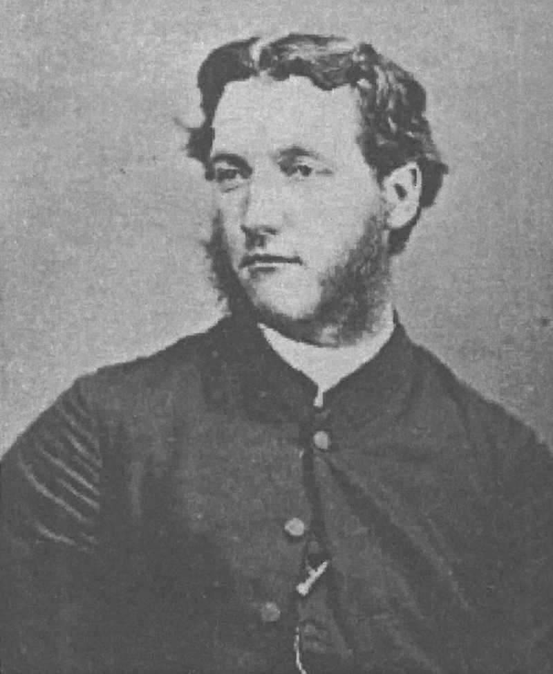 Gustavus Innes who inherited Lake Innes House, Port Macquarie, circa 1870